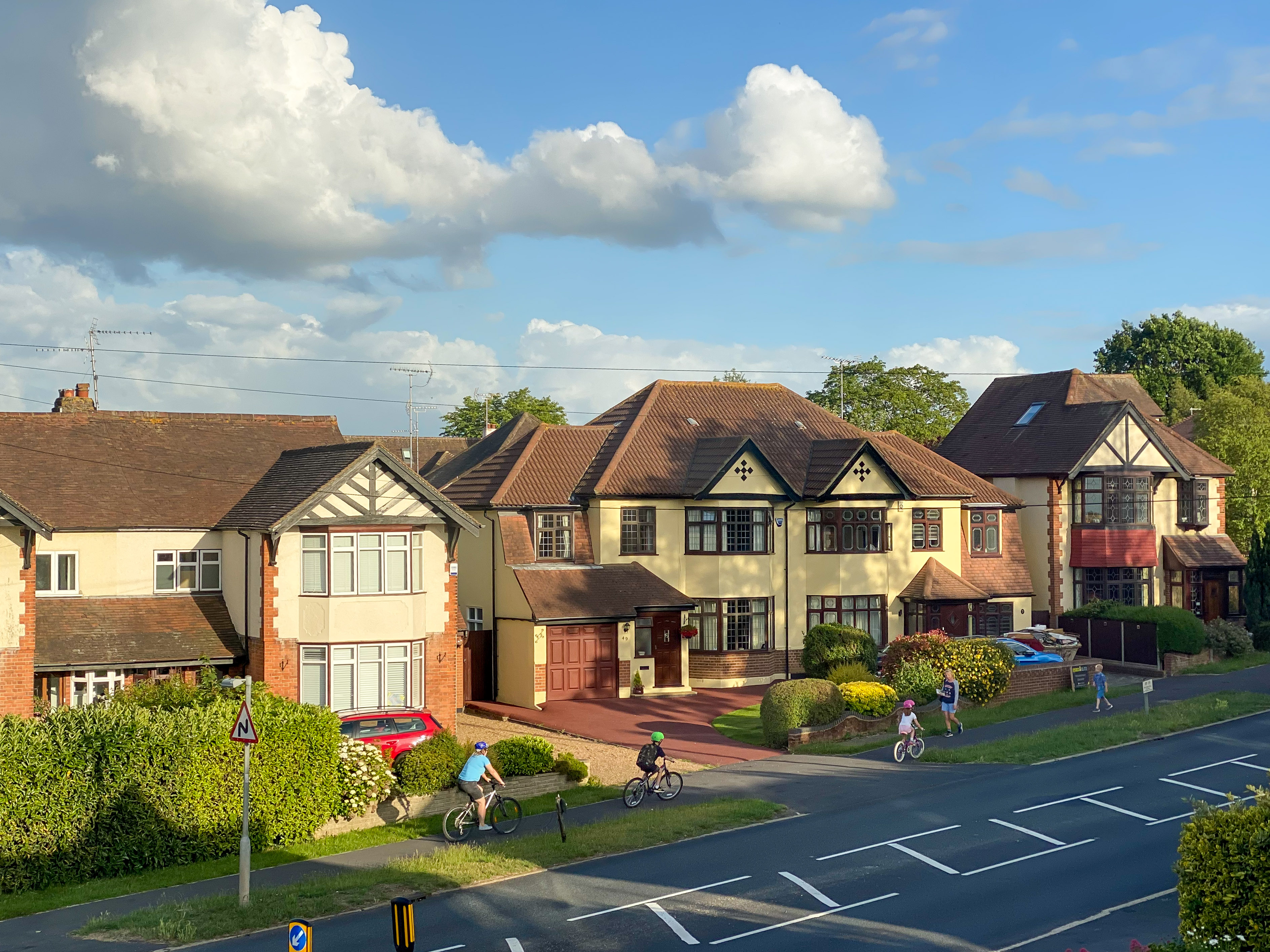 Houses in Chelmsford Road, Shenfield